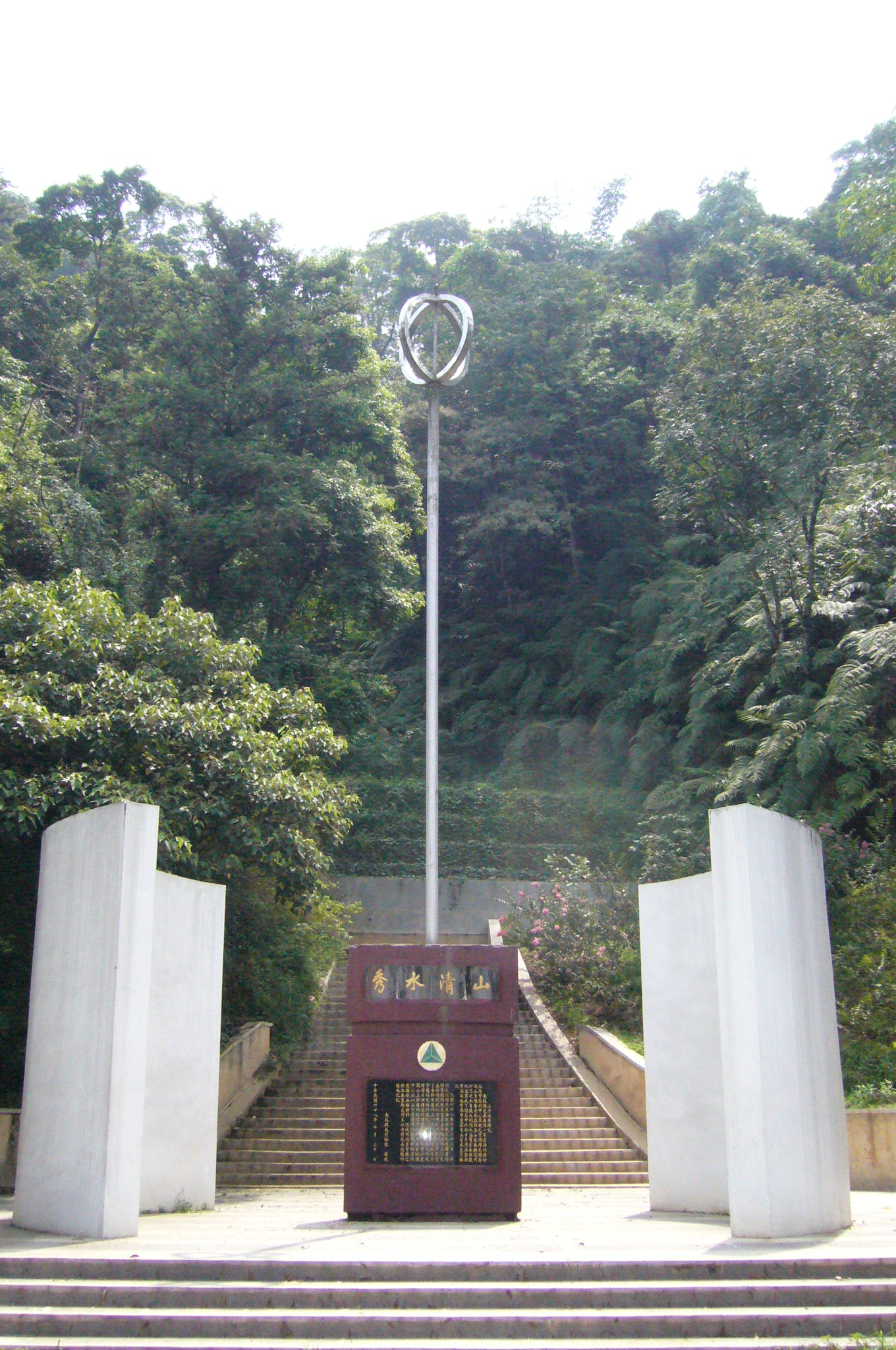 The Geographic Center Stela located at Huzishan（Hutzushan）in Pili Township,Nontou County,Taiwan